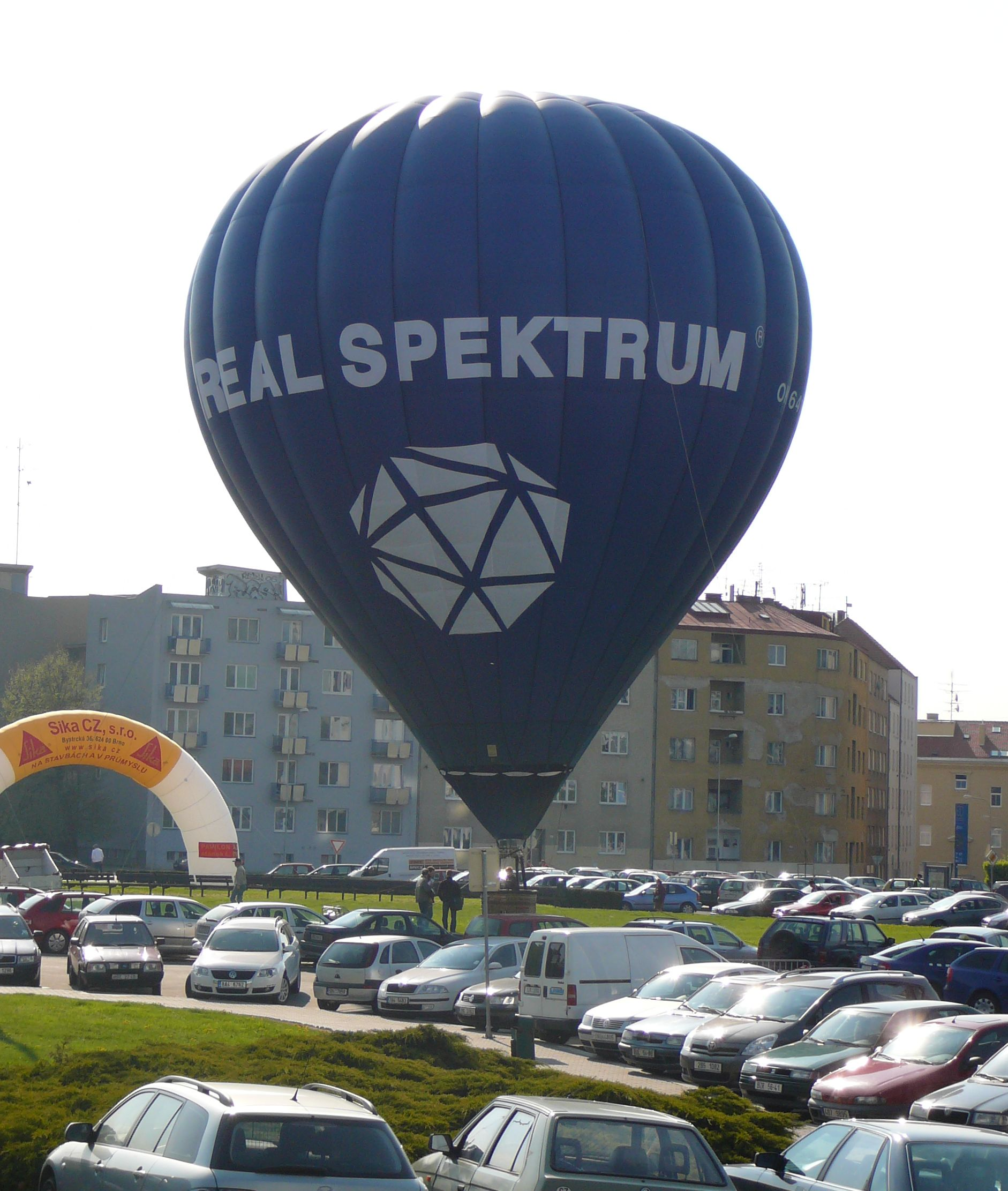 Hot air balloon on the Building Fair Brno.